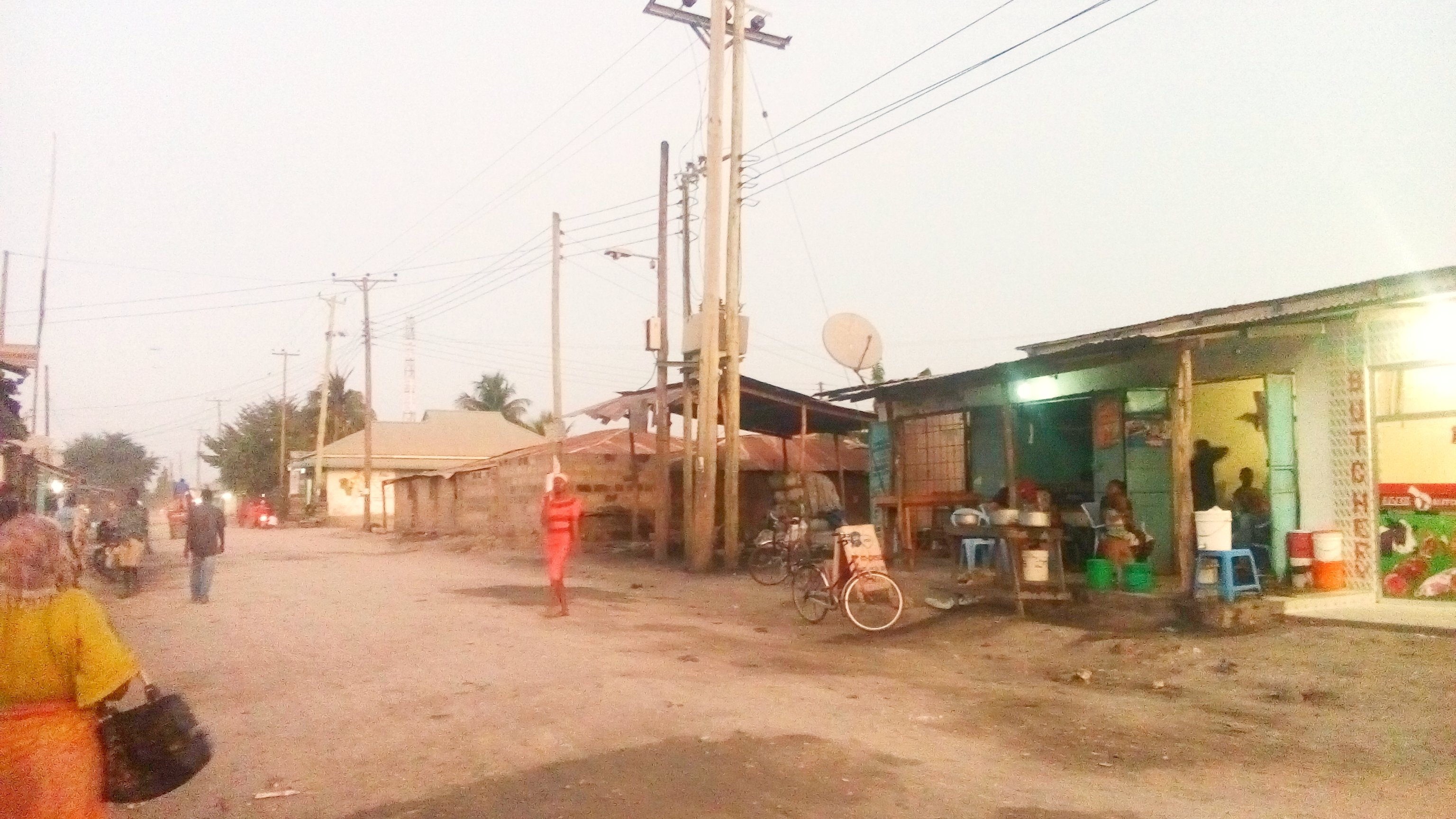 Kiwalani downtown. The area is widely known as Kijiwe Samli bus stop. Kiswahili: Mtaani Kijiwe Samli. Eneo maarufu kama kituo cha basi cha Kijiwe Samli.